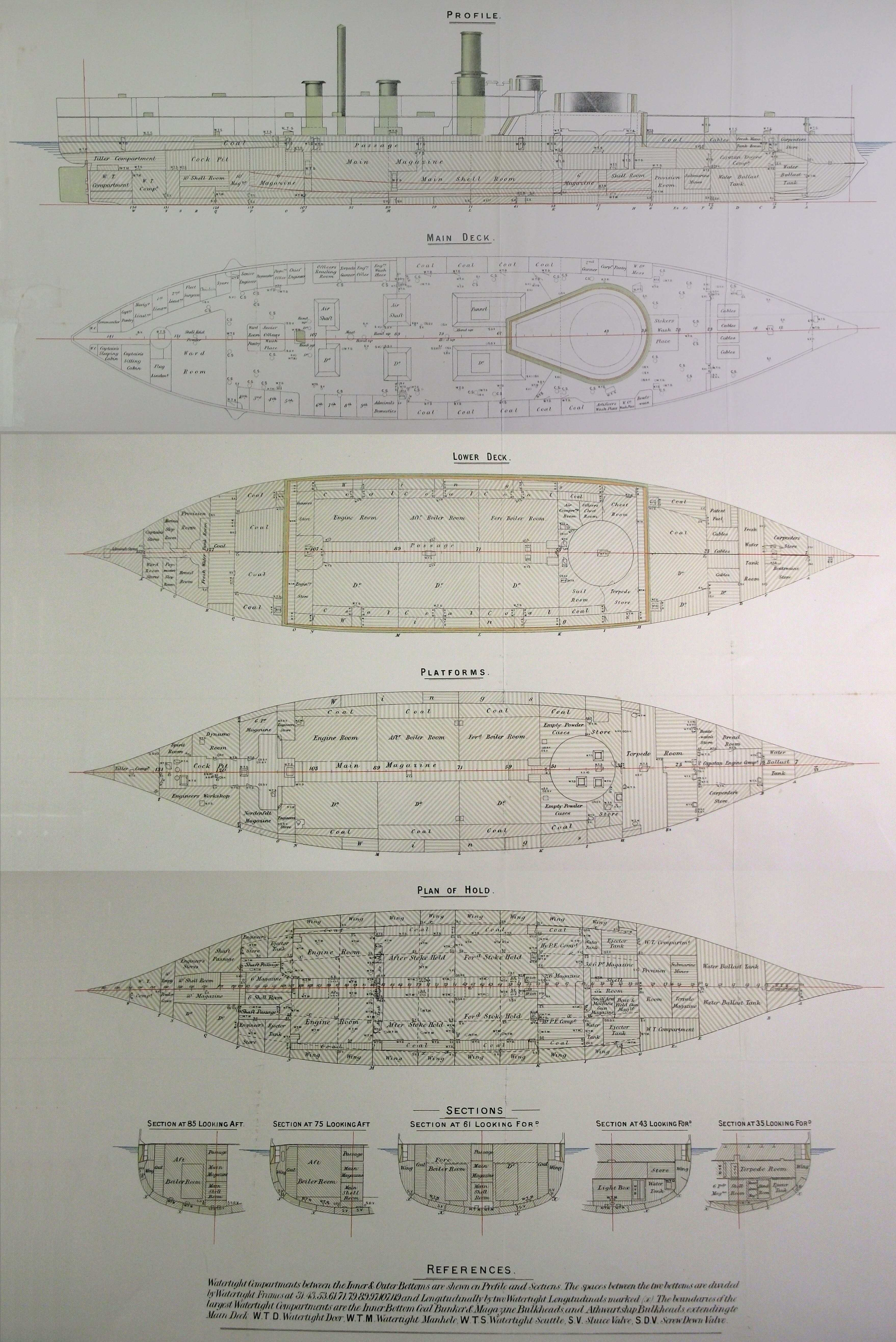 Plan drawings of HMS Victoria (1887) included as evidence at the court-matial investigation into her sinking and published together with the transcript proceedings by HMSO, London, 1893.